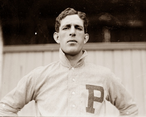 Depicted person: Bob Hall – American baseball player